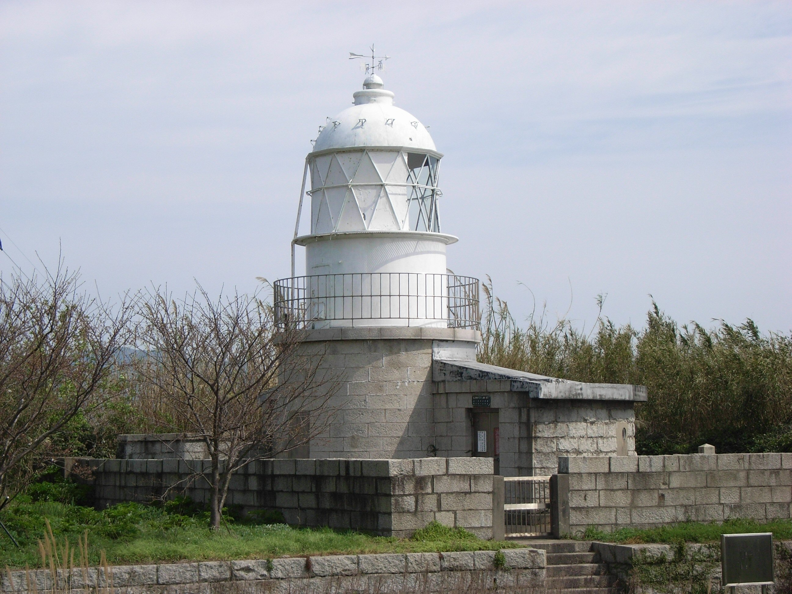 Mutsure Shima Lighthouse is one of the oldest lighthouses in Japan.